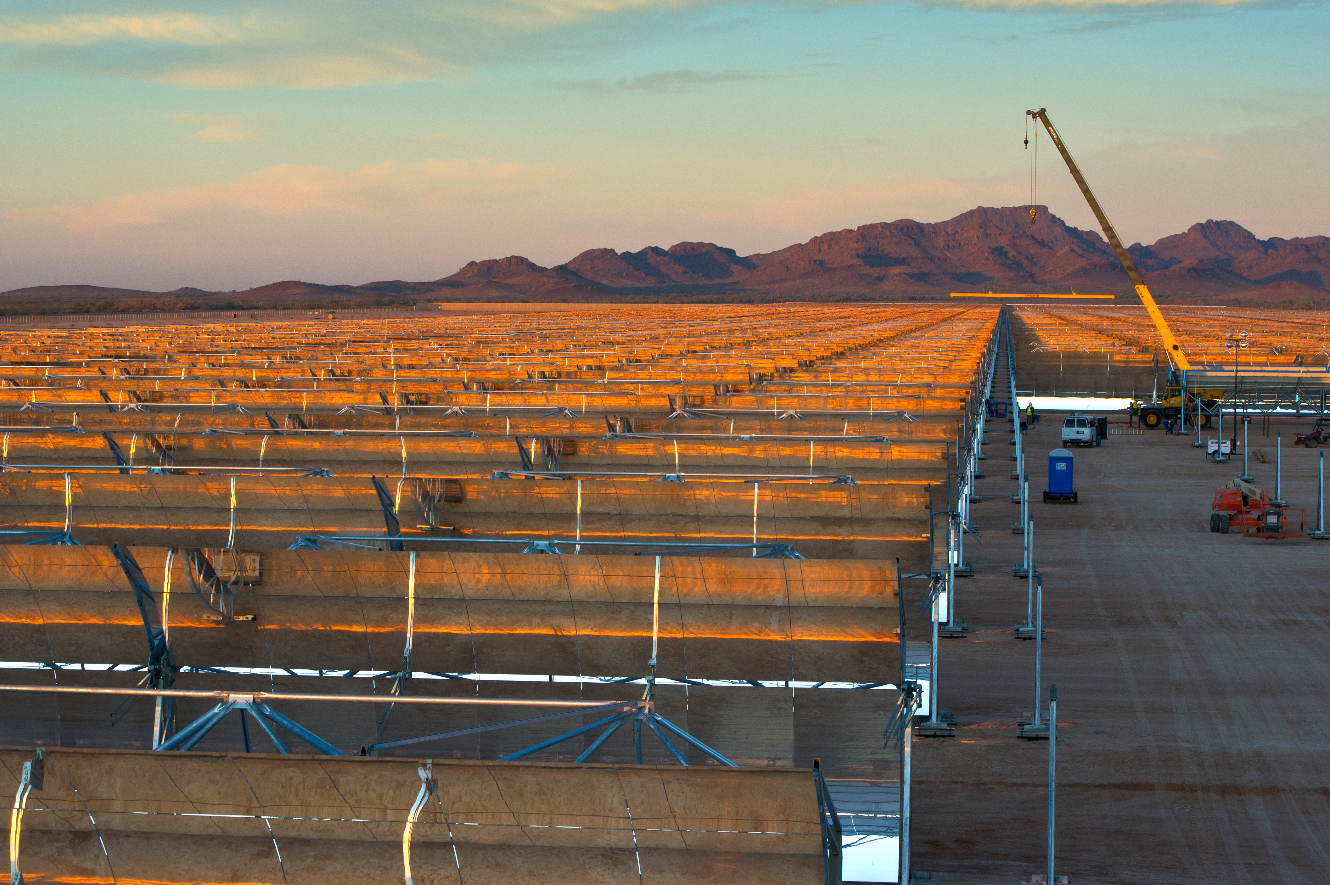 Crews work around the clock installing mirrored parabolic trough collectors, built on a site that will cover 3 square miles at Abengoa's Solana Plant in Gila Bend, Arizona. When finished, the Solana Plant will generate 280 MWs of clean, sustainable power - serving over 70,000 Arizona homes.